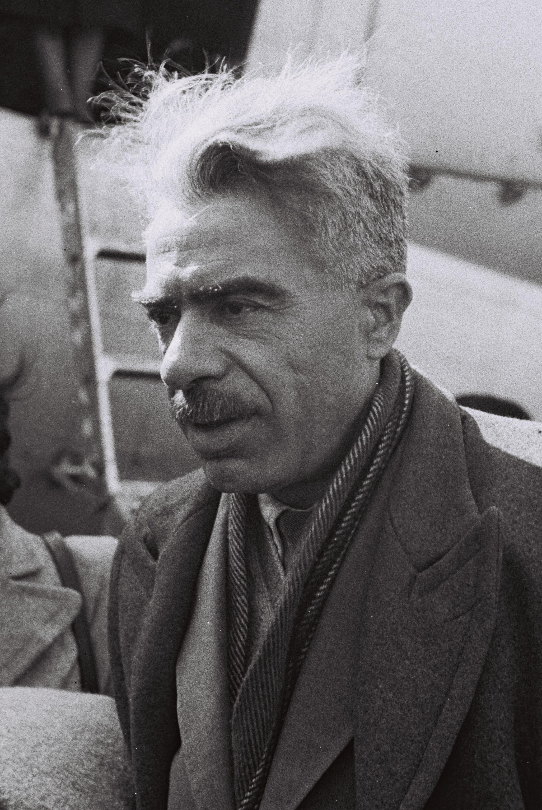 Knesset member Meir Yaari (Mapam) at Lydda airportbefore leaving Israel.